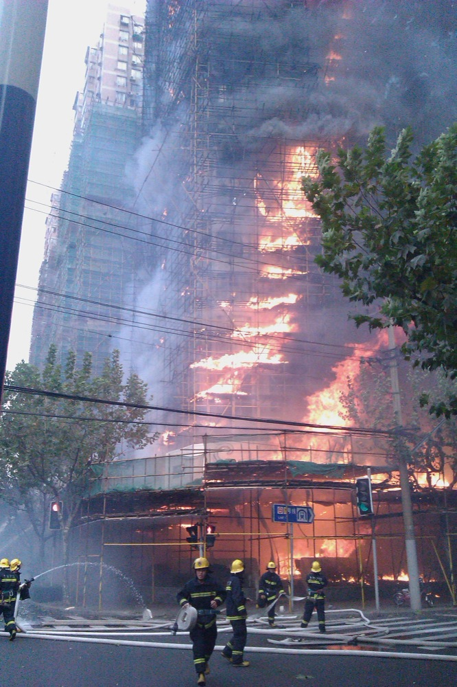 2010 Shanghai high-rise fire